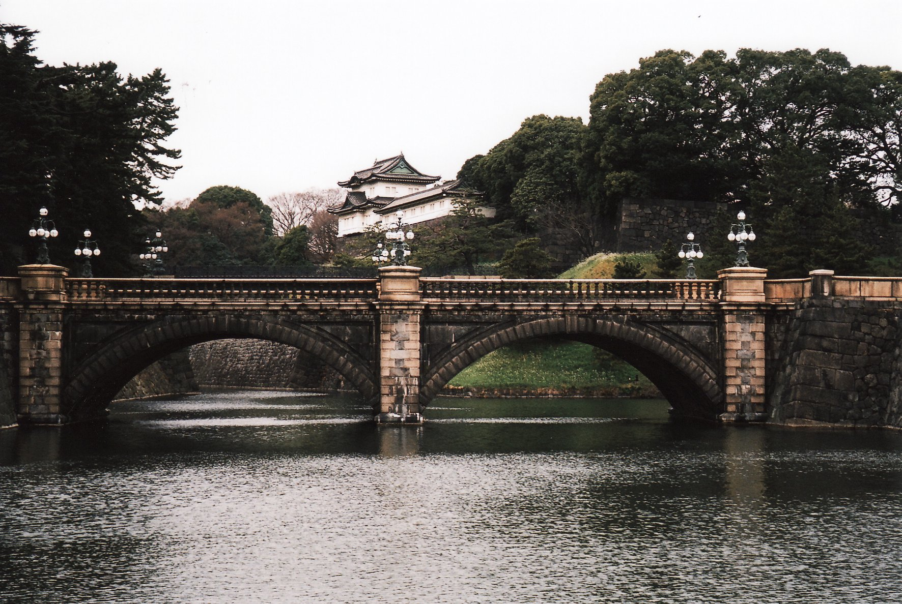 Scanned 35mm photo of Tokyo Imperial Palace (Kokyo) in Japan during March 2008.